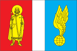 Flag of Borispolski Raion, Ukraine.